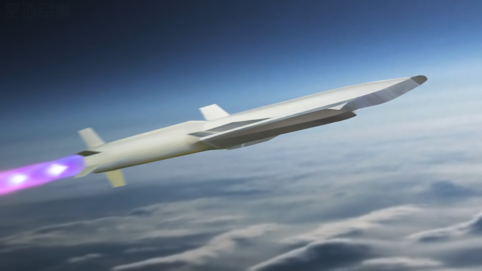 Artist's impression of the Chinese National Science and Technology Major Project 0901 Flying Vehicle.